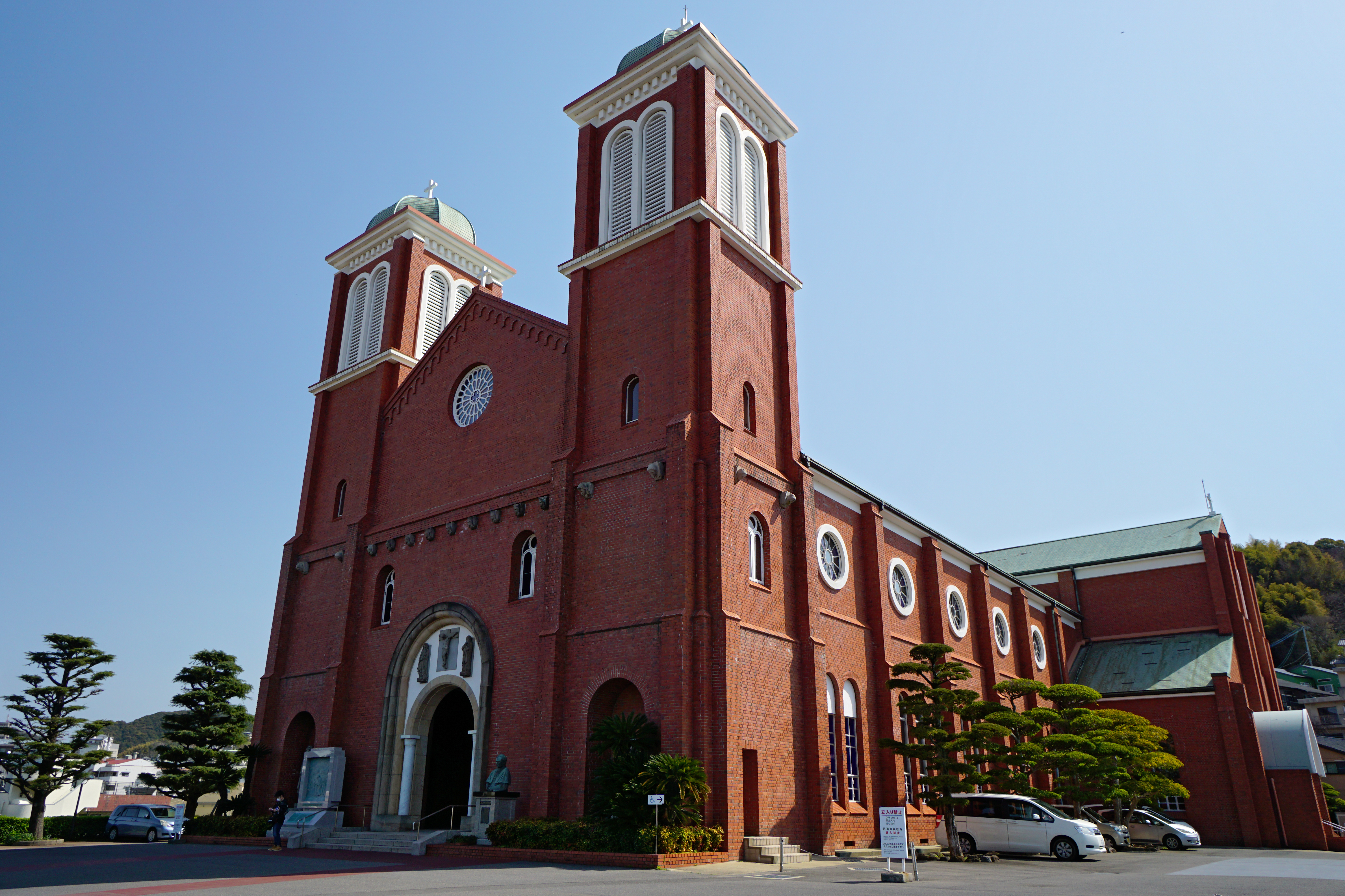 Urakami Cathedral in Nagasaki, Nagasaki prefecture, Japan.